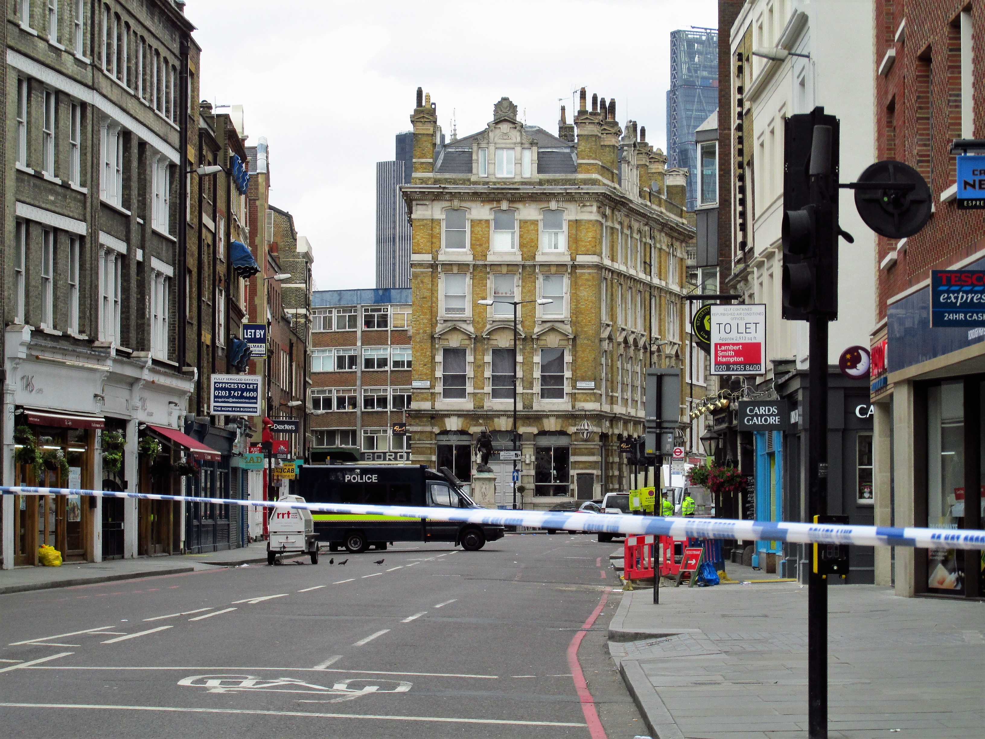 London June 5 2017 (21) Borough High Street after the Terrorist Attack